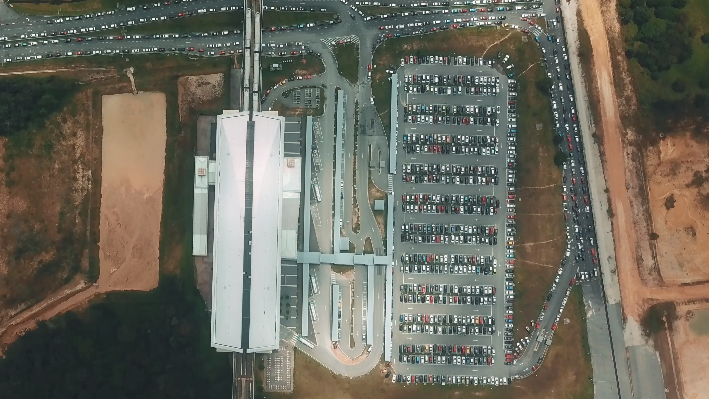 MRT KWASA CENTRAL STATION SELANGOR